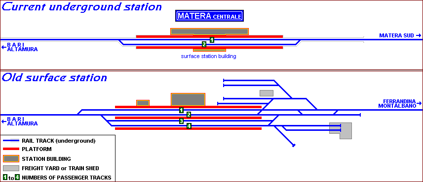 Schematic map of Matera Centrale train station, showing the old surface station and the current underground one. In blue are shown the tracks, in red the platforms, in dark grey the station building and in light grey the freight yards or train sheds. Passenger tracks (1 to 4) are numbered.[1]